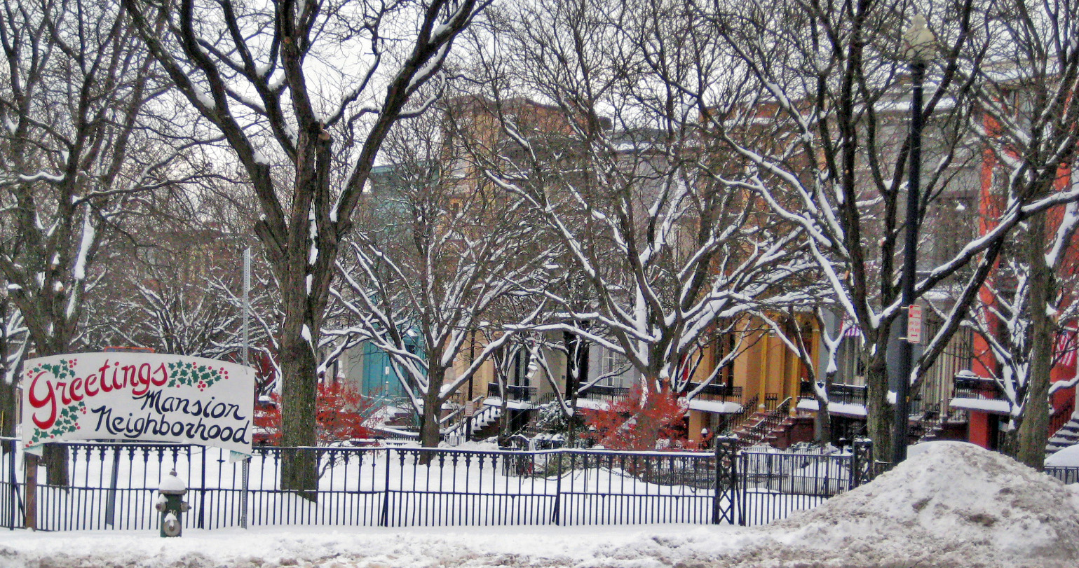 January, 2009. Albany, NY